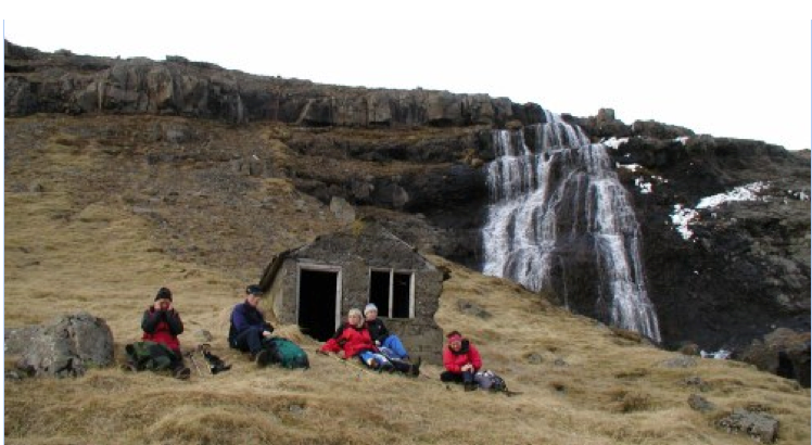 Rafstöðin við Karlsskála byggð 1914 af Indriða Helgasyni